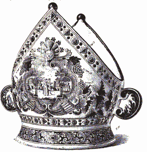 punch bowl in form of a mitre, Copenhagen Fayence, attributed to Johan Pfau, c. 1750, height 31 cm, Museum für Kunst und Gewerbe, Hamburg